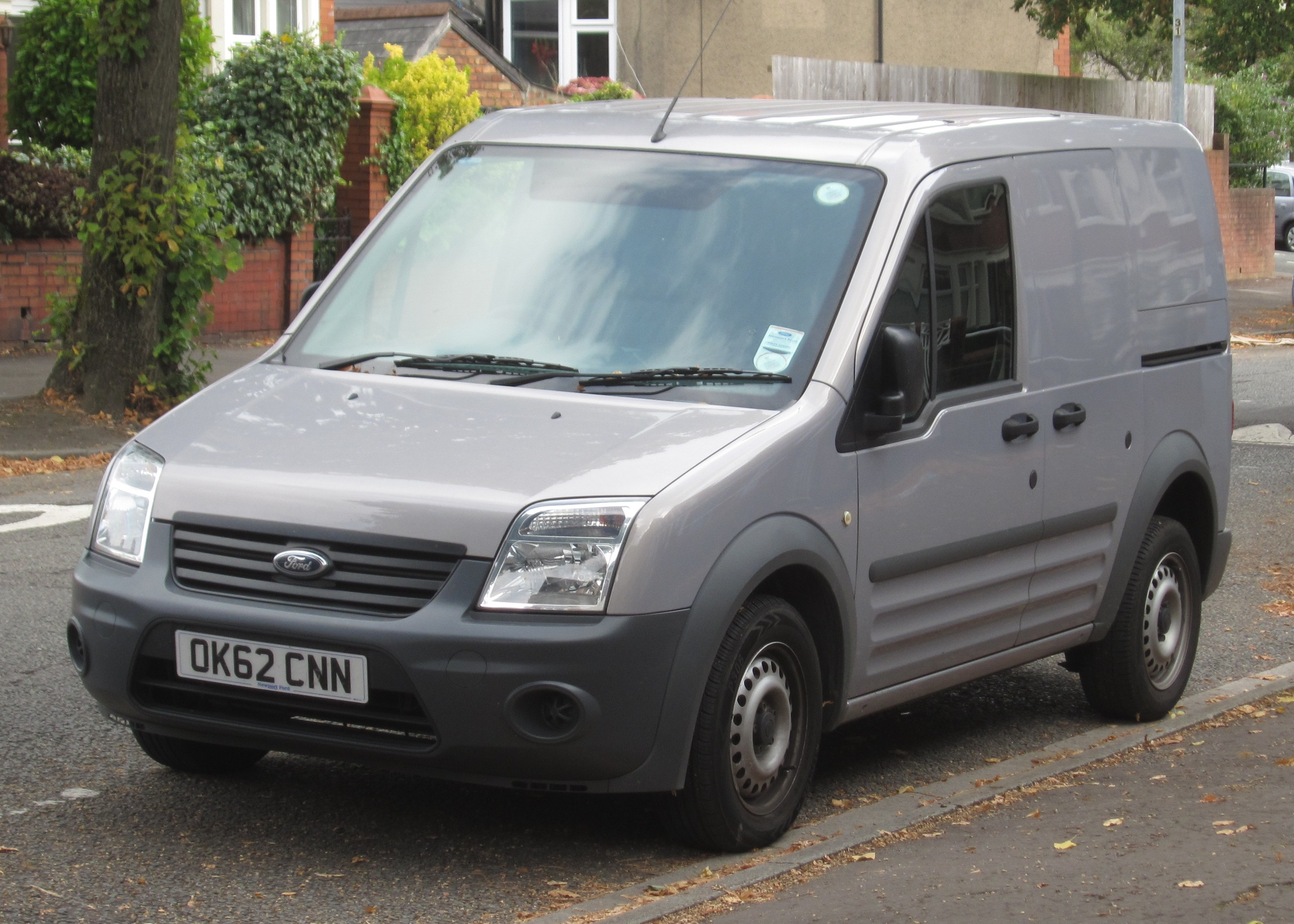 Ford Transit Connect (2012) in Wales (2014)